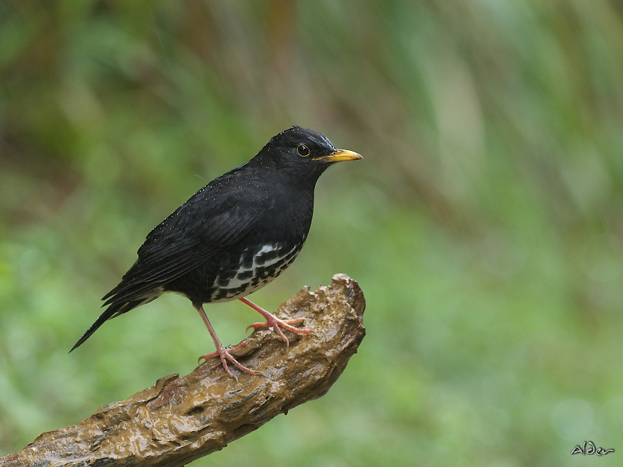 Male, passenge, Yehliu, Taipei County, Taiwan.